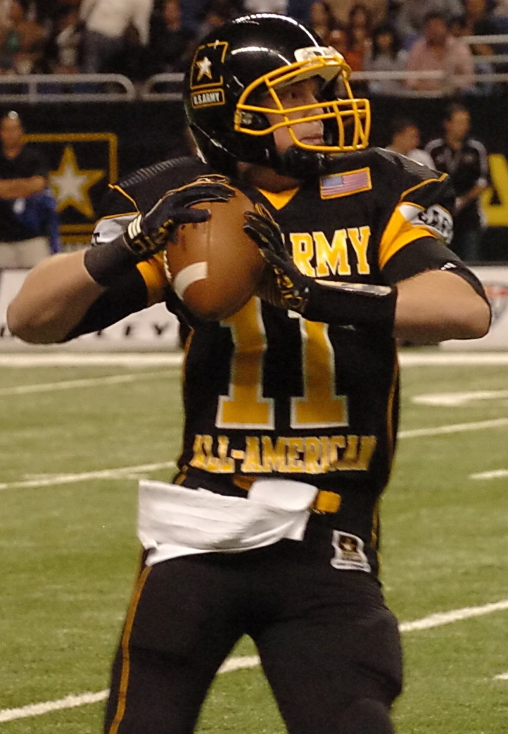 The East team prepares to pass while West bears down on the quarterback during the U.S. Army All American Bowl, Jan. 7, 2012, in the Alamodome in San Antonio.